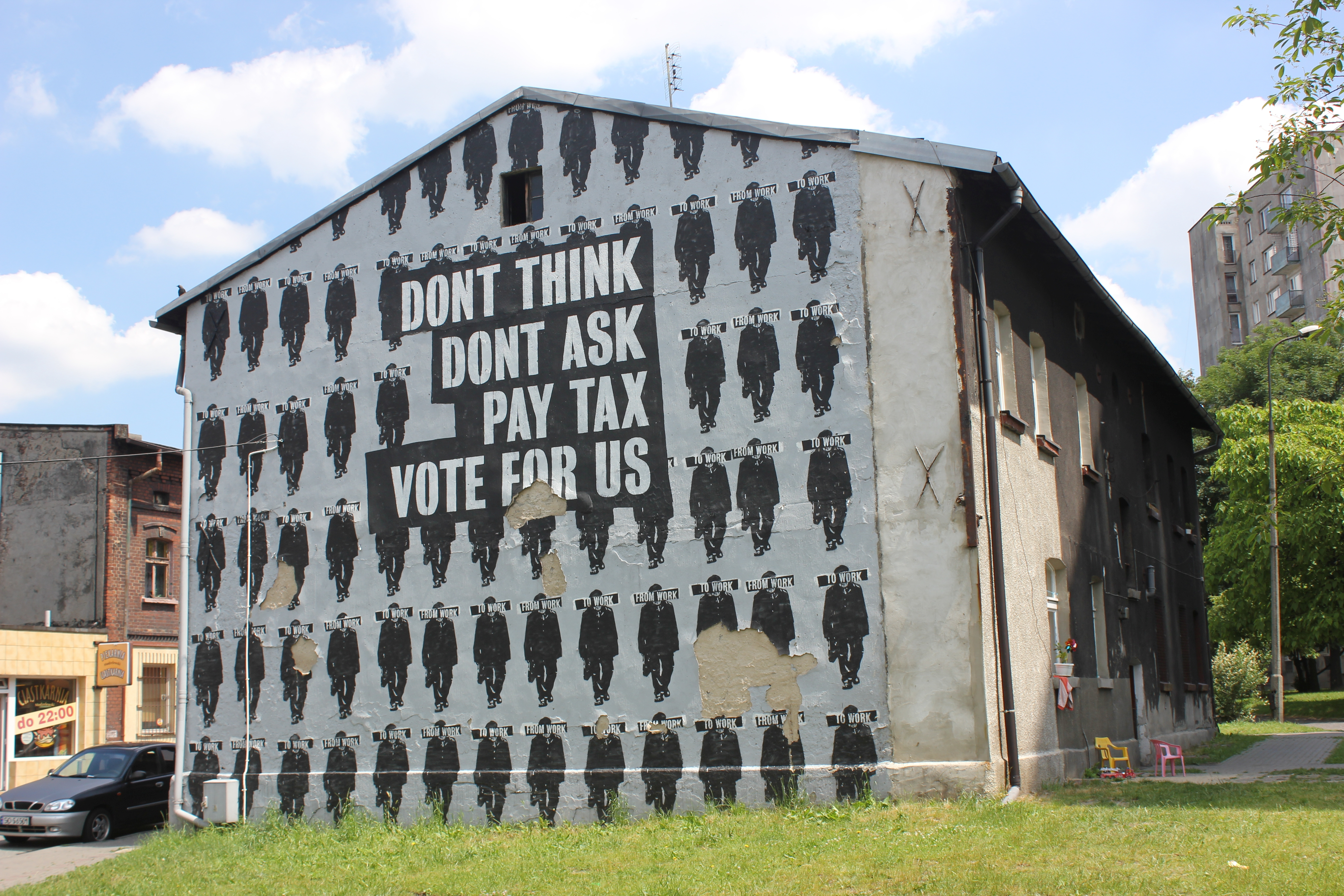 Katowice - Peter Fuss's mural in Wincentego Pola str.